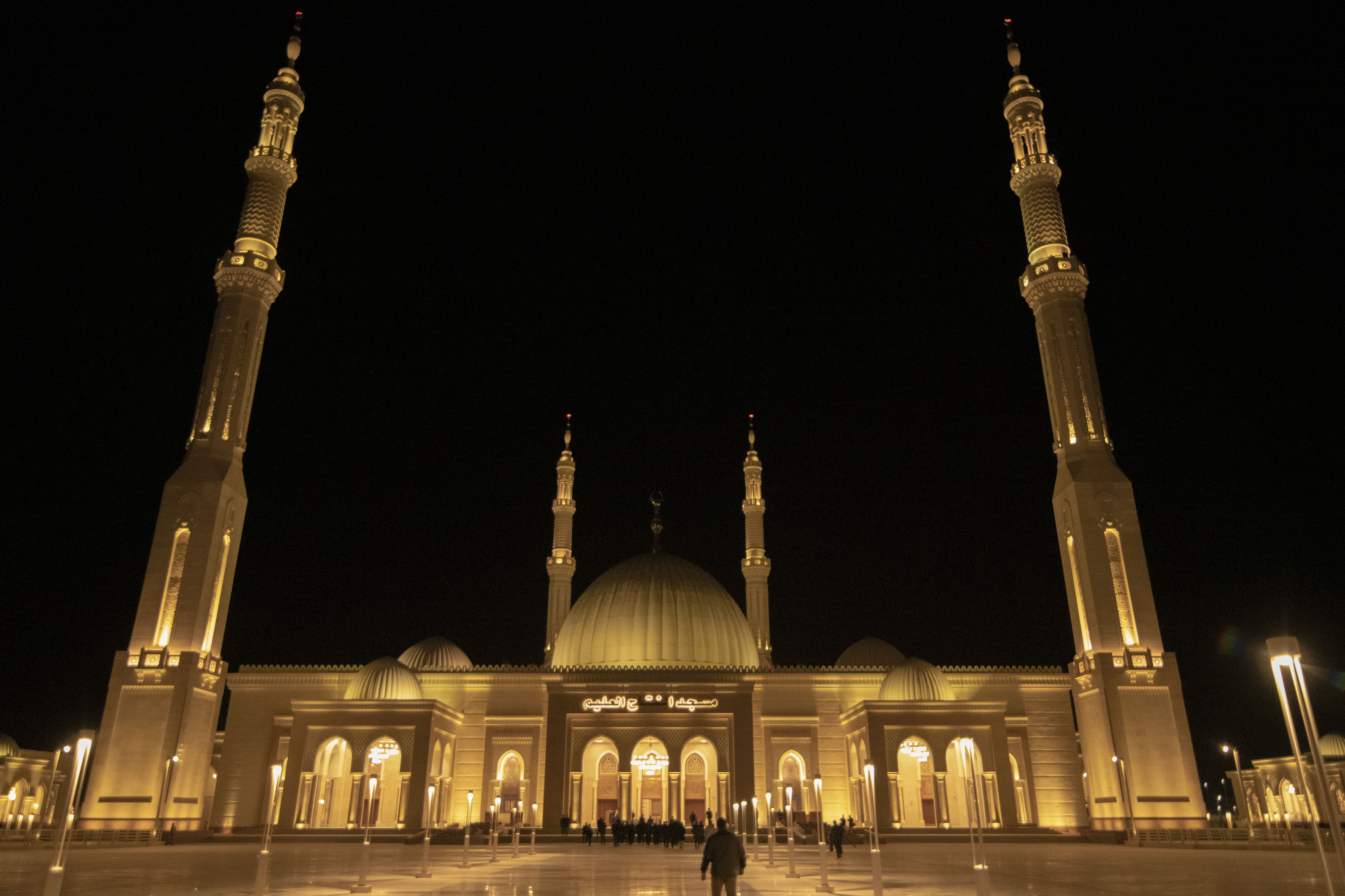 U.S. Secretary of State Michael R. Pompeo visits Al Fattah Al Alim Mosque in Cairo, Egypt, on January 10, 2019. [State Department photo/Public Domain]